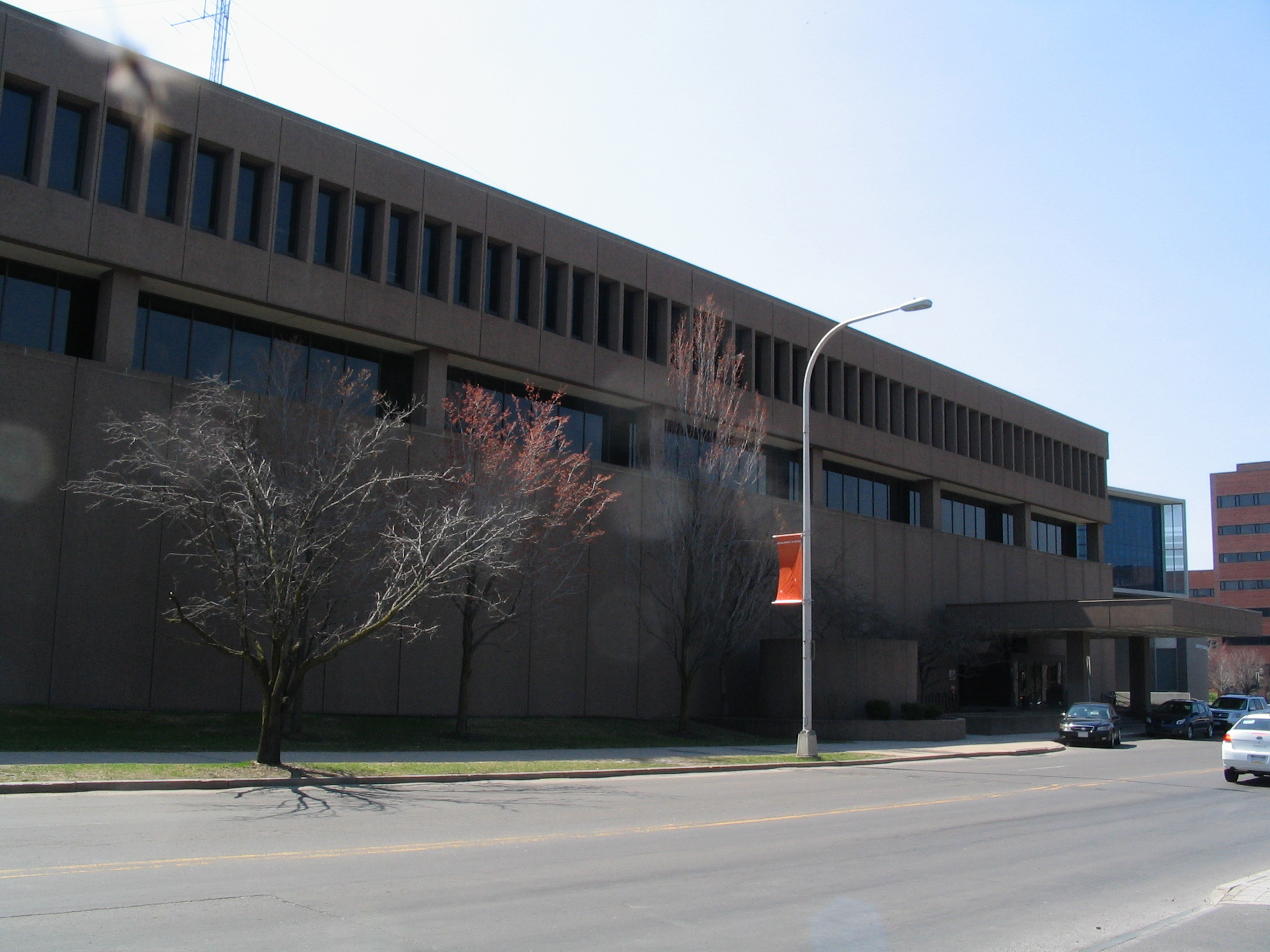 This is an image of Newhouse Communications Center II that I took with my digital camera. This building is located on Syracuse University.